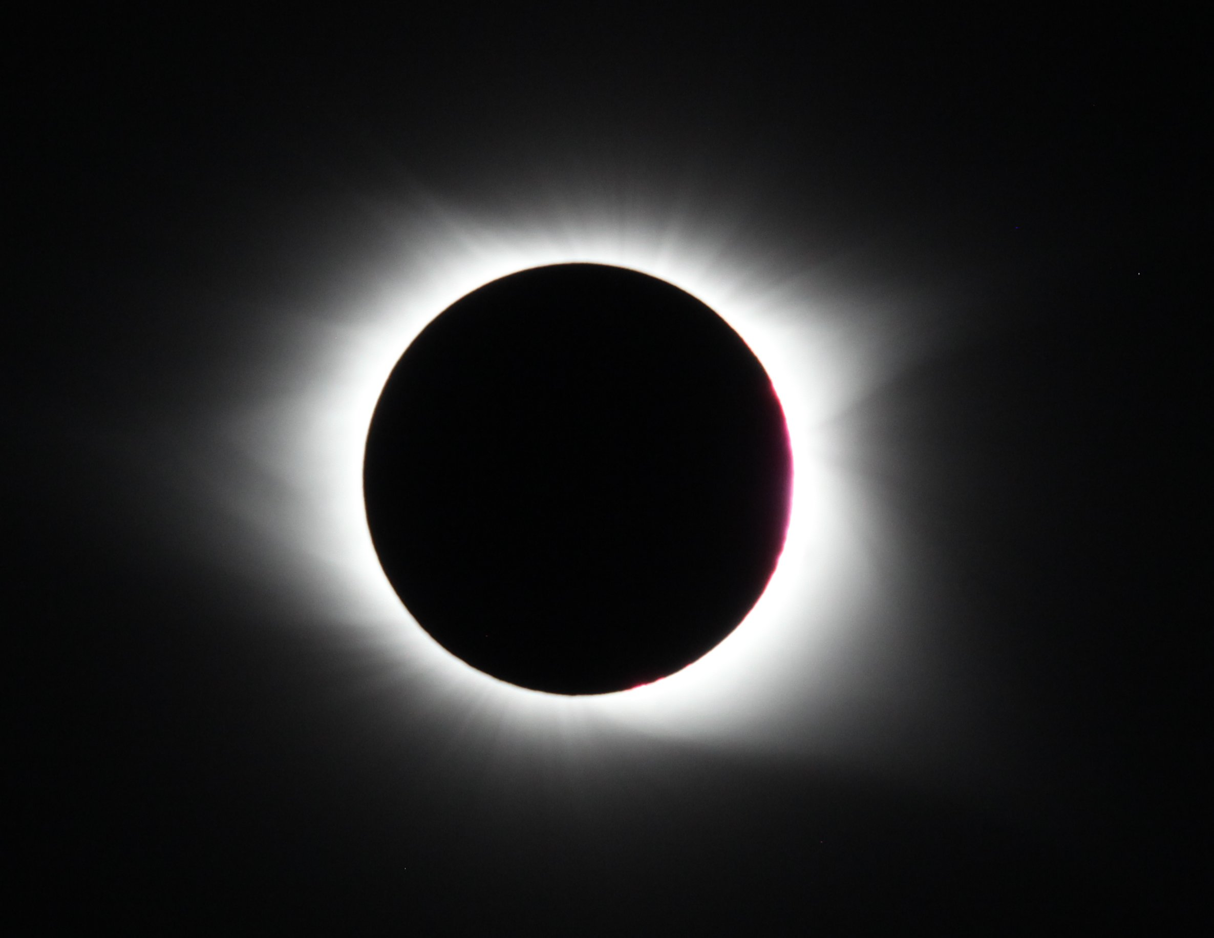 The Solar Eclipse of 21 August 2017. A few seconds before the diamond ring appeared. Foto made with Rubinar 500/5.6 and 2x converter on Canon 5D Mark II. Camera Location: Saint Paul, South Carolina. Image cropped without any further treatment.